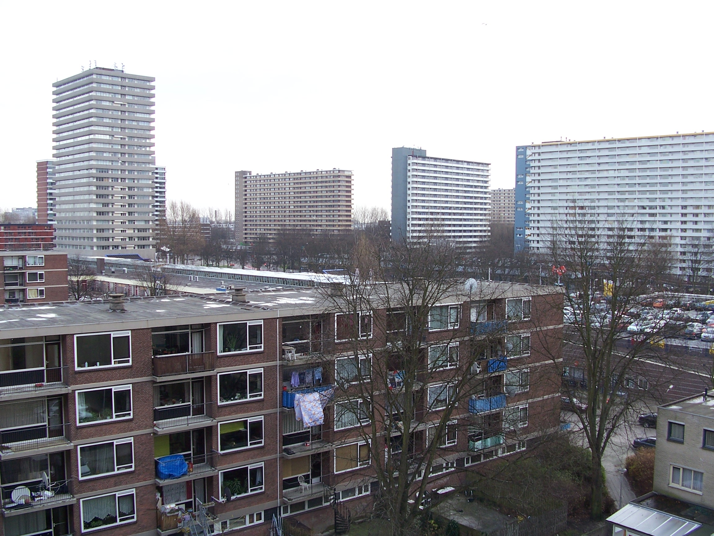 Poptahof Delft